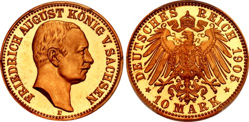 GERMANY, Sachsen (Königreich). Friedrich August III. 1904-1918. Proof AV 10 Mark (18mm, 12h). Muldenhütten mint. Dated 1905 E. Bare head right / Crowned eagle facing with head left, wings spread; collared coat-of-arms on breast. Jaeger 267; KM 1264; cf. Friedberg 3849 (for business strike). In PCGS encapsulation graded PR65 CAM.